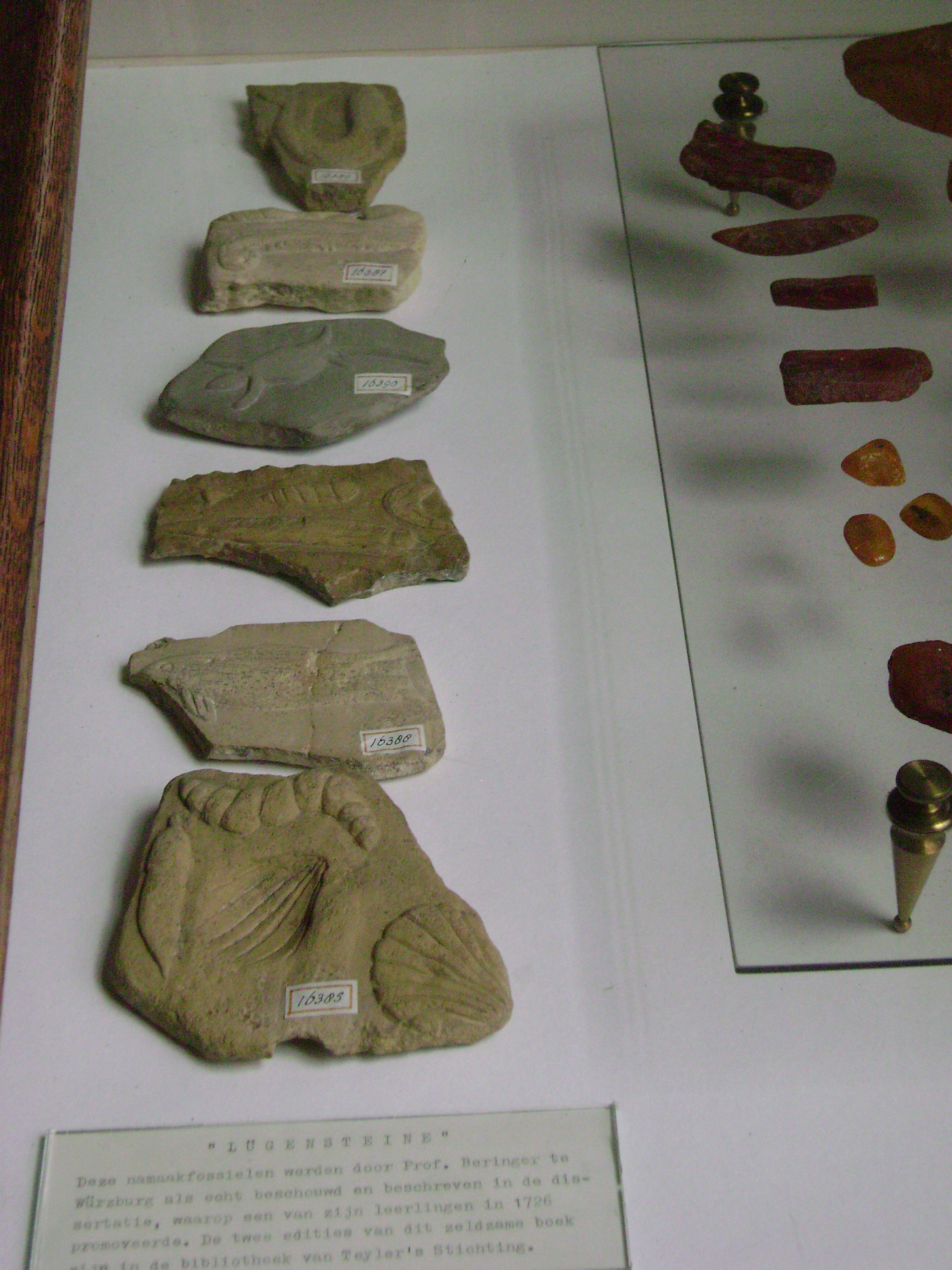 So-called Würzburger Lügensteine, fake fossils produced in the 18th century in order to deceive Professor Adam Beringer, by seeming to confirm his theories about fossil-formation. These are displayed at the Teylers Museum, Haarlem, Netherlands